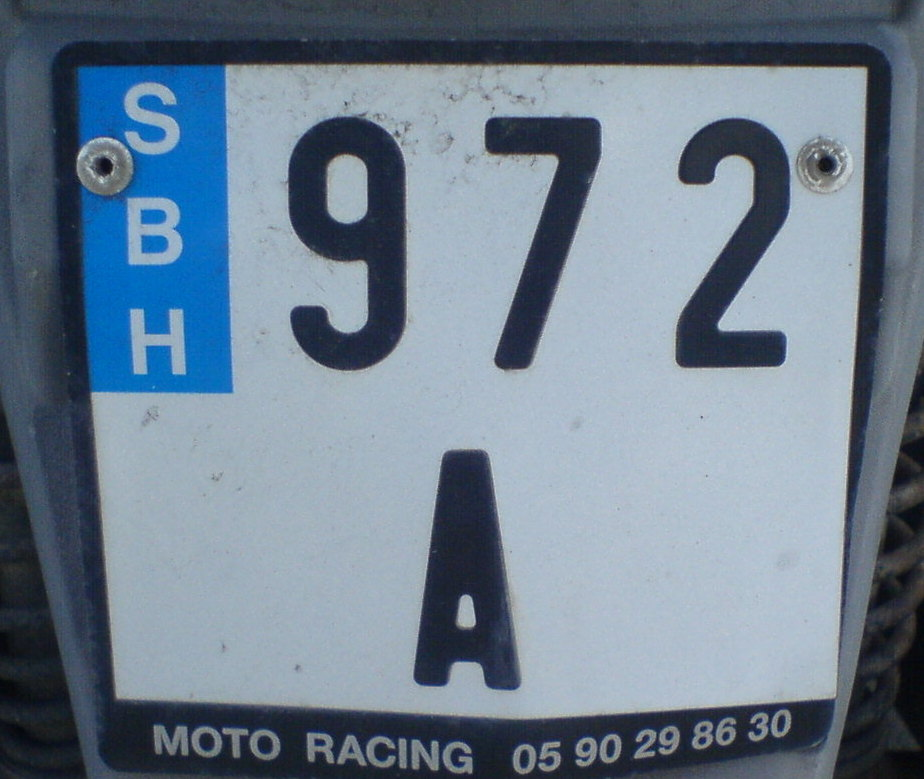 license plate “972 A”